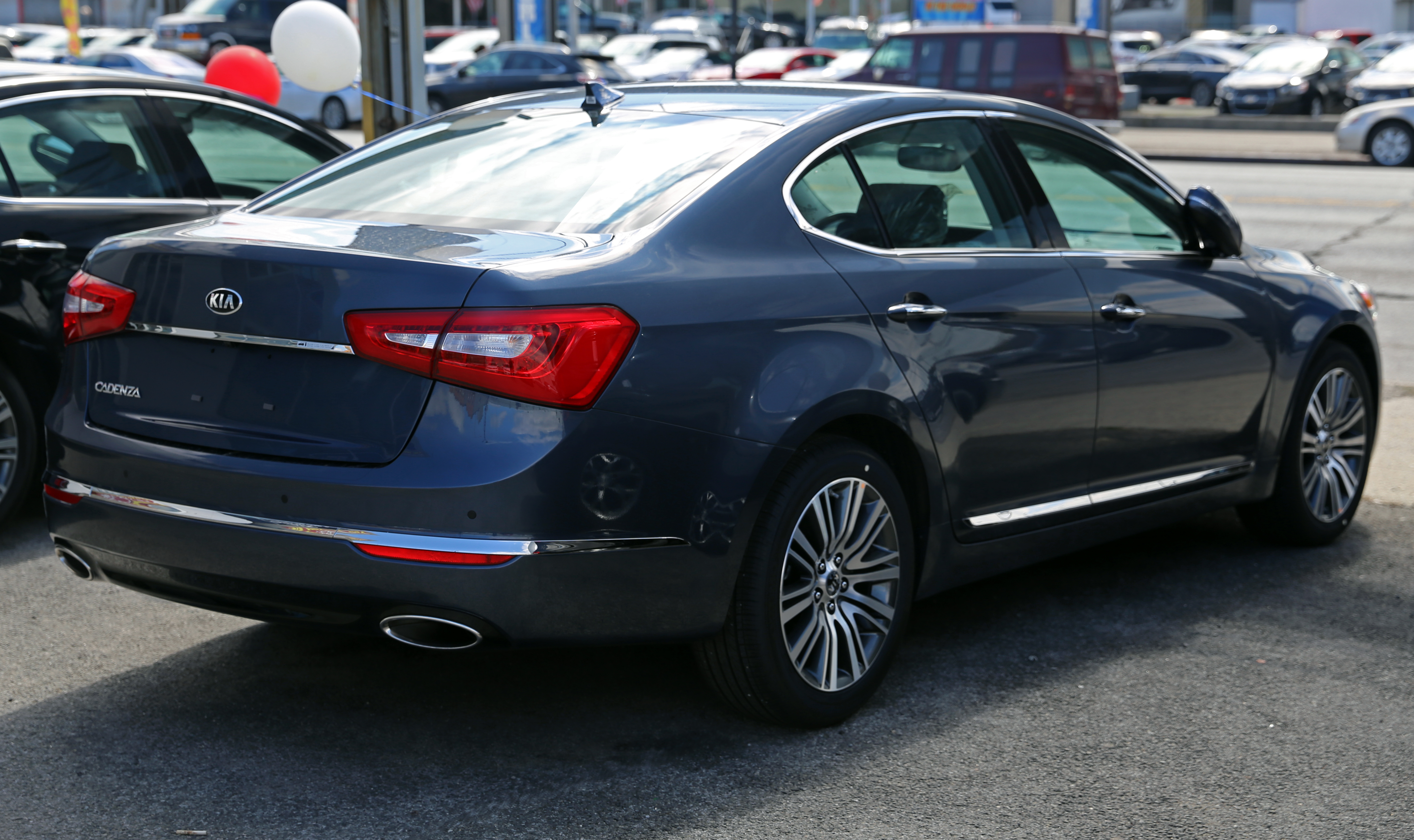 A 2014 Kia Cadenza.